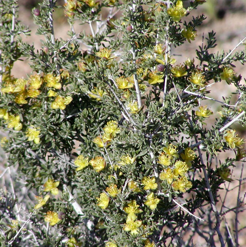 Photo of Coleogyne ramosissima (blackbrush) in Red Rock Canyon, Nevada